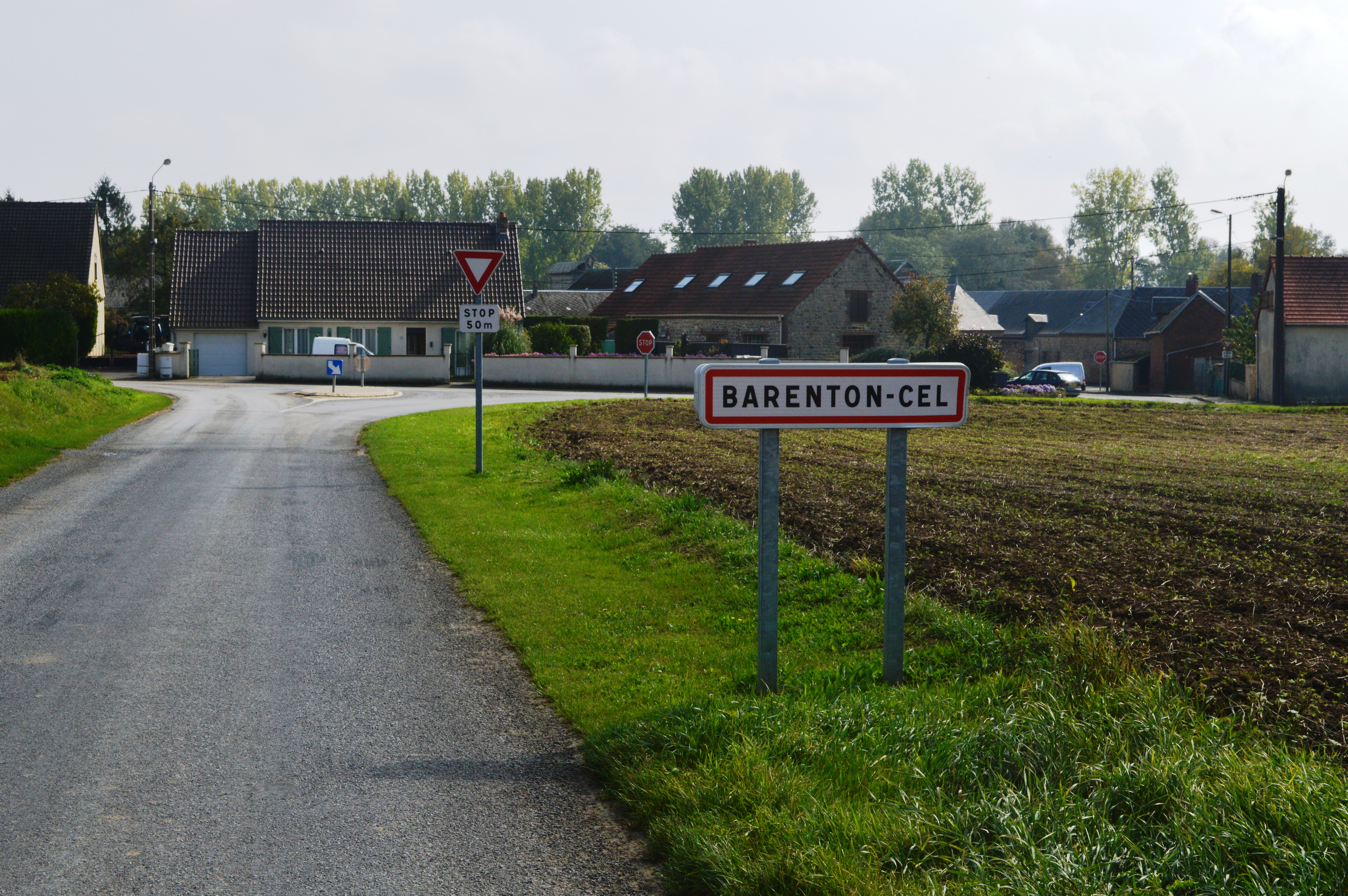 The entry to Barenton-Cel